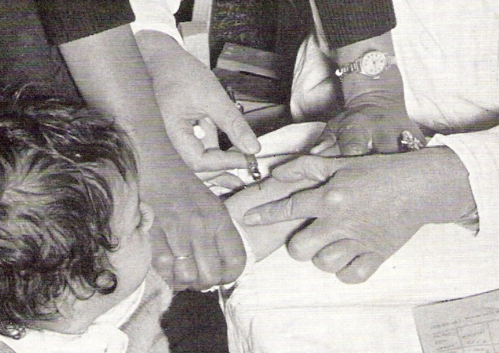 Vaccination against Poliomyelitis in Israel